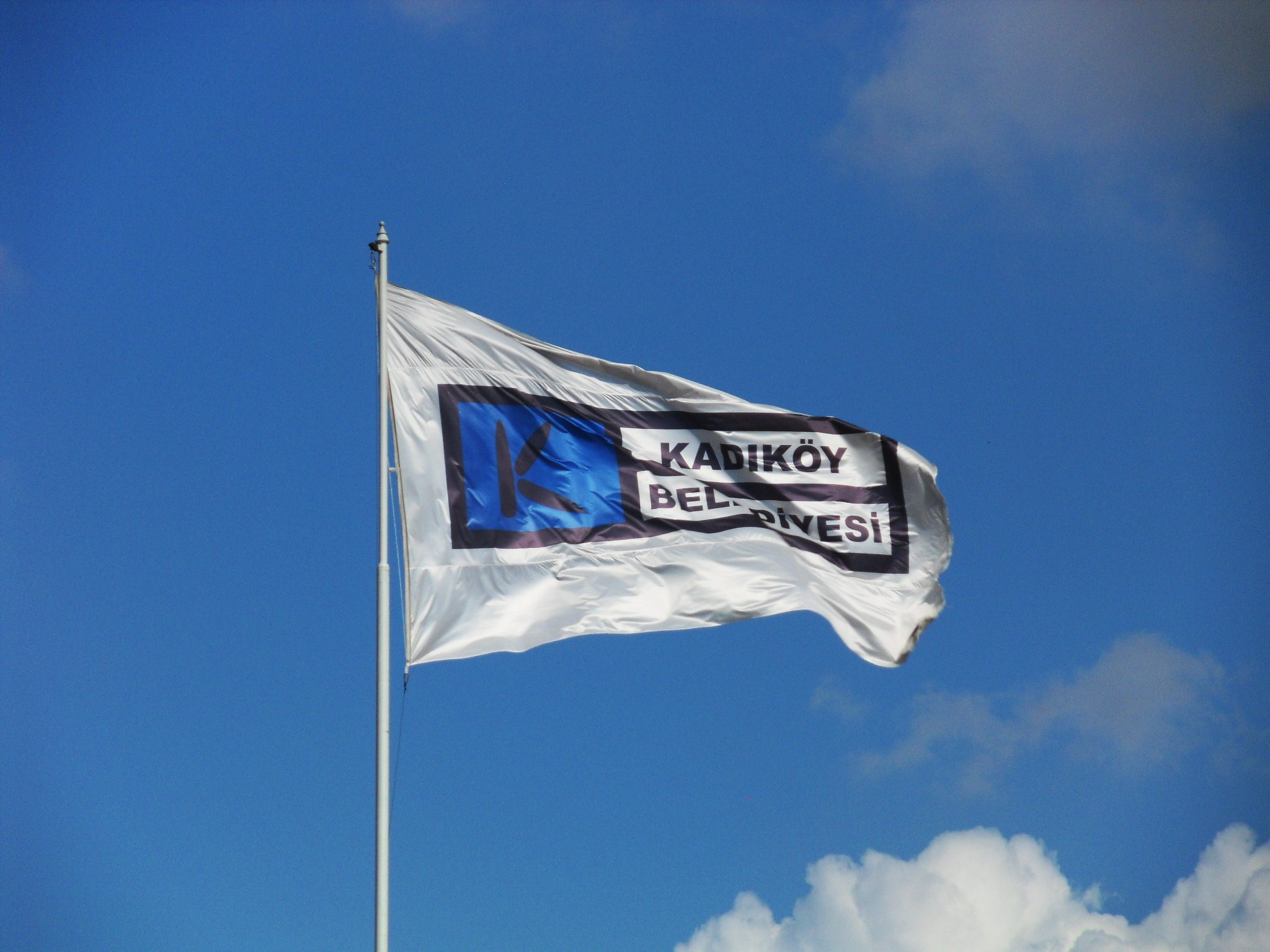 Kadıköy flag is waving at Kadıköy Square